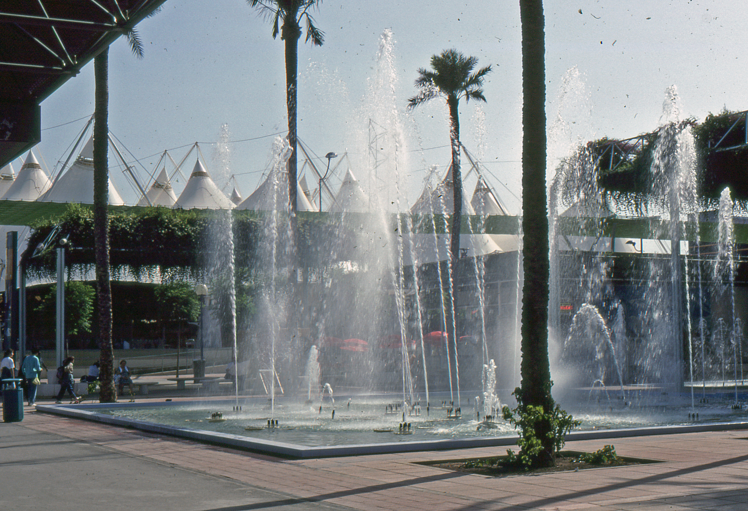 Fountains at the entrance to tha Avenue of Europe. Olympus OM10 + Kadachrome 100 ASA